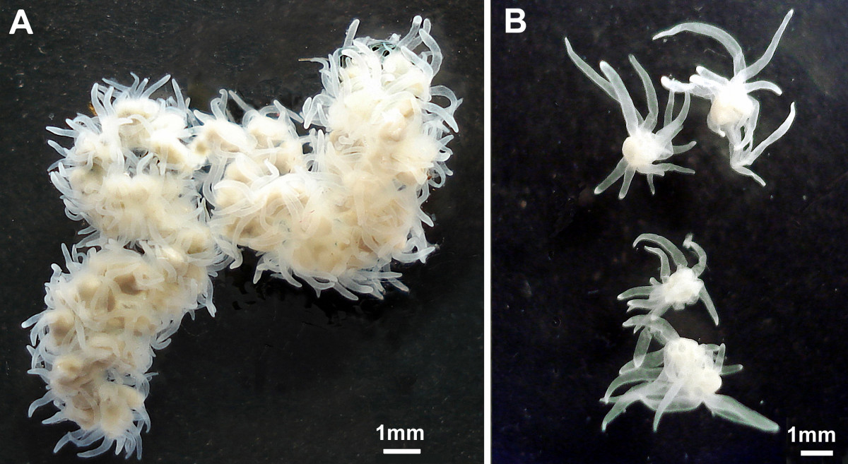 Parasitic cnidarian Polypodium hydriforme: A – stolon stage just after emerging from the host oocyte; B – Four specimens of free-living Polypodium with 12 tentacles.